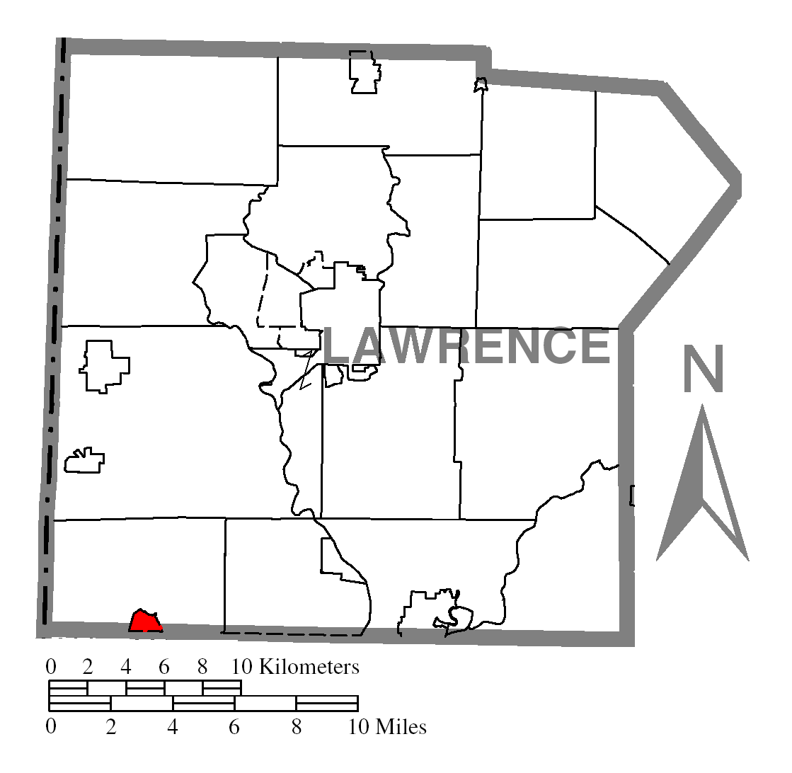 Map of Lawrence County higlighting Enon Valley.